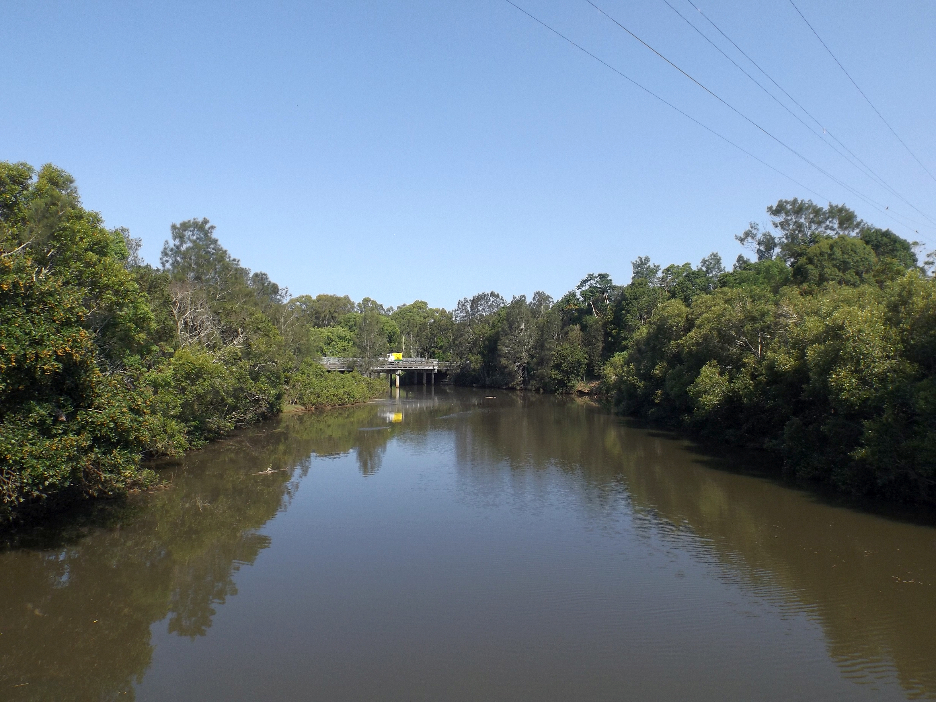 Photo of Tallebudgera Creek at Coplicks Lane in Tallebudgera, Gold Coast City, Queensland, Australia.